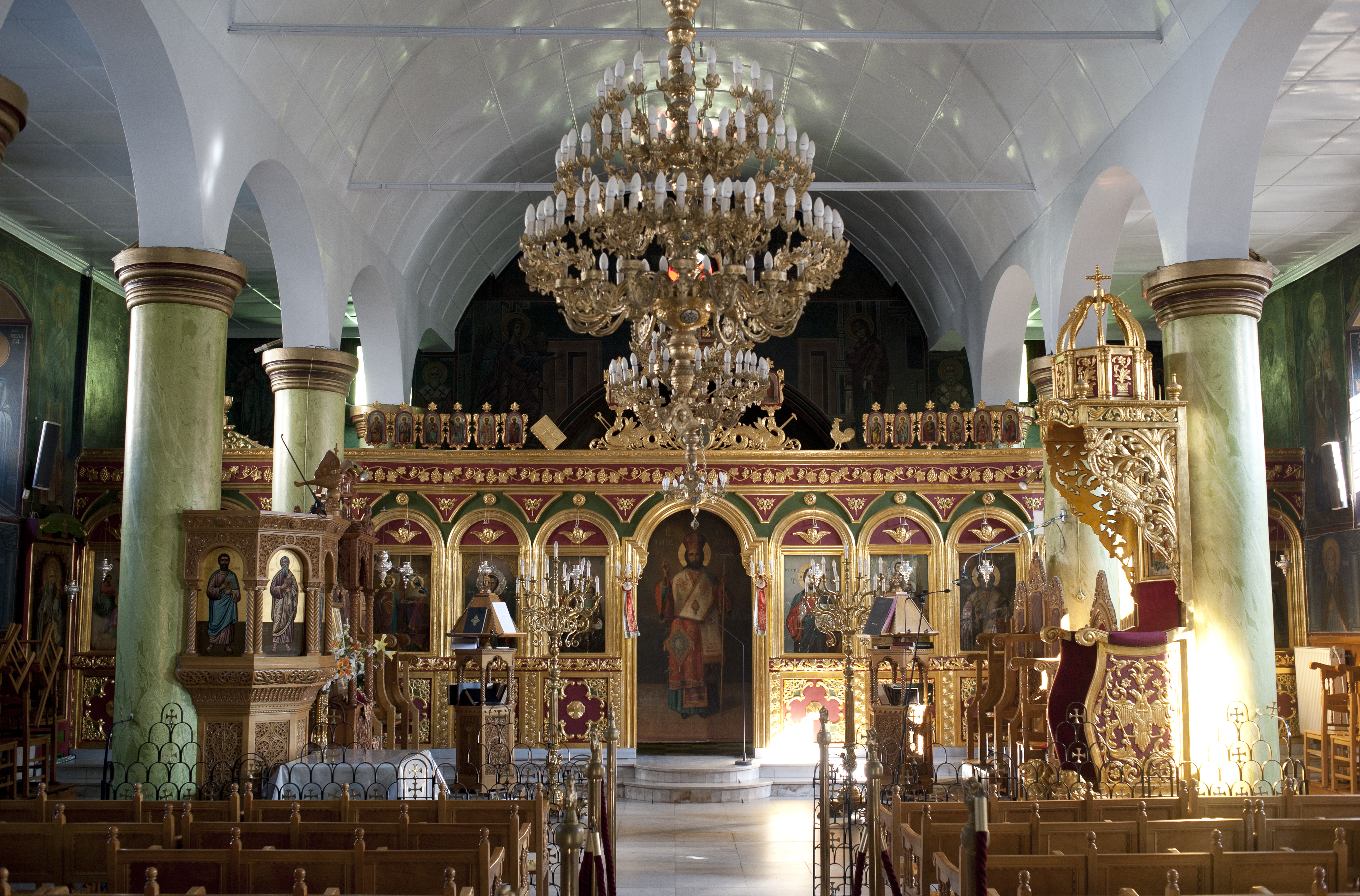 Temple of the Church of Agios Pantelehmonos Serres Greece.